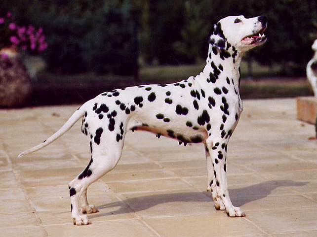 Dalmatiner "Prunella Fitzgerald de Puech Barrayre"